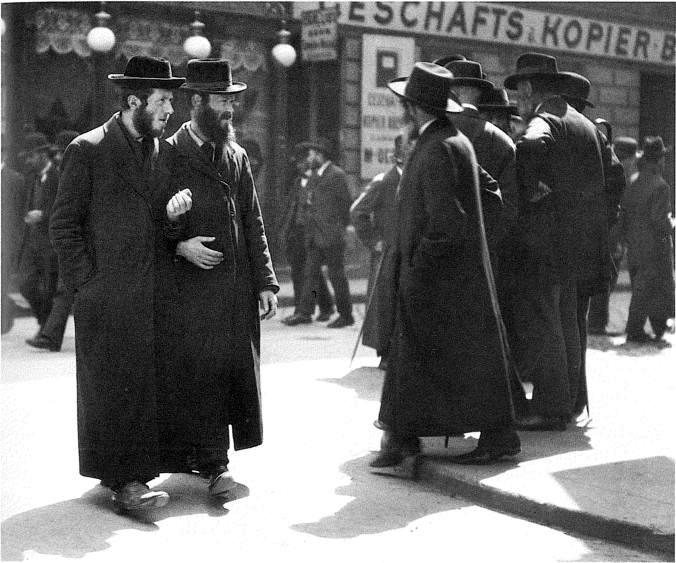 Orthodox Jews from Galicia at the Karmeliterplatz in Vienna's second district Leopoldstadt.